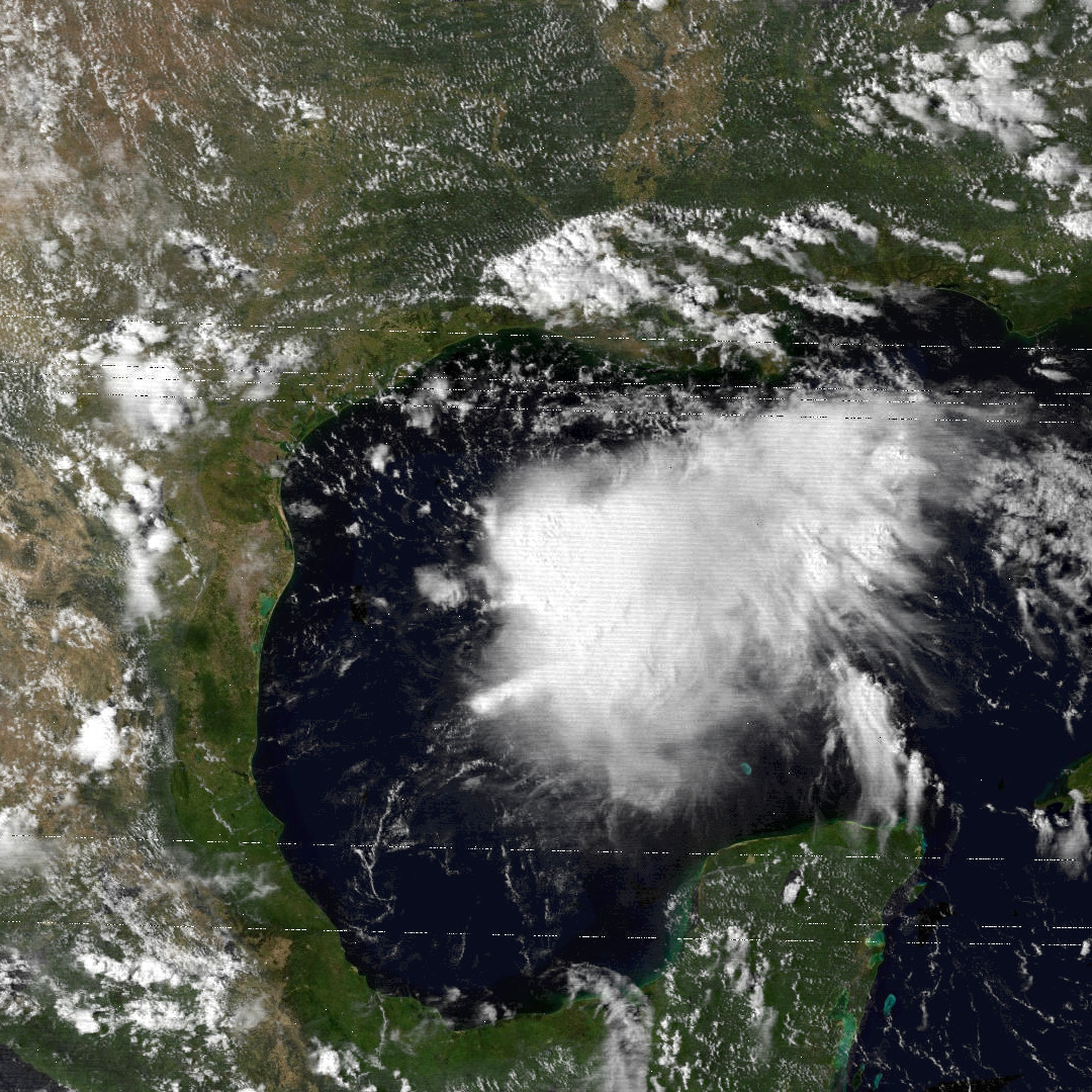 Tropical Storm Elena in the Gulf of Mexico on August 30, 1979